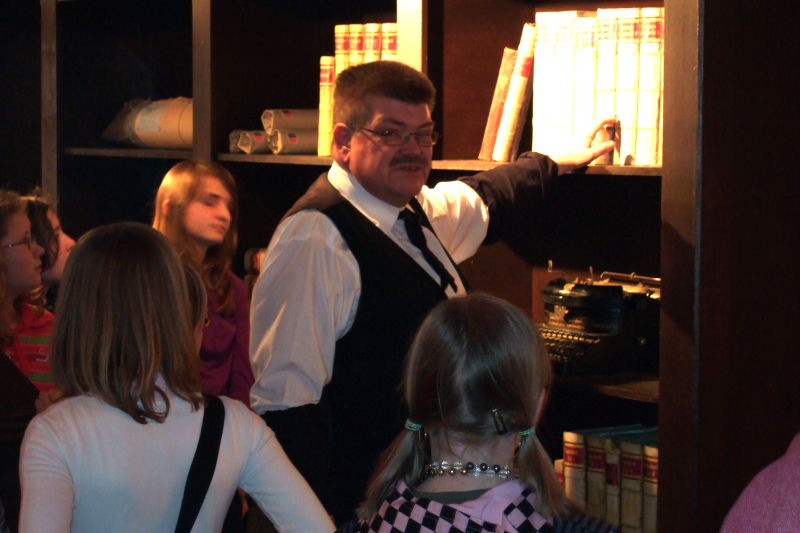 Bremer Geschichtenhaus („Story house of Bremen“) at Schnoor quarter: Bremen merchant office around 1910